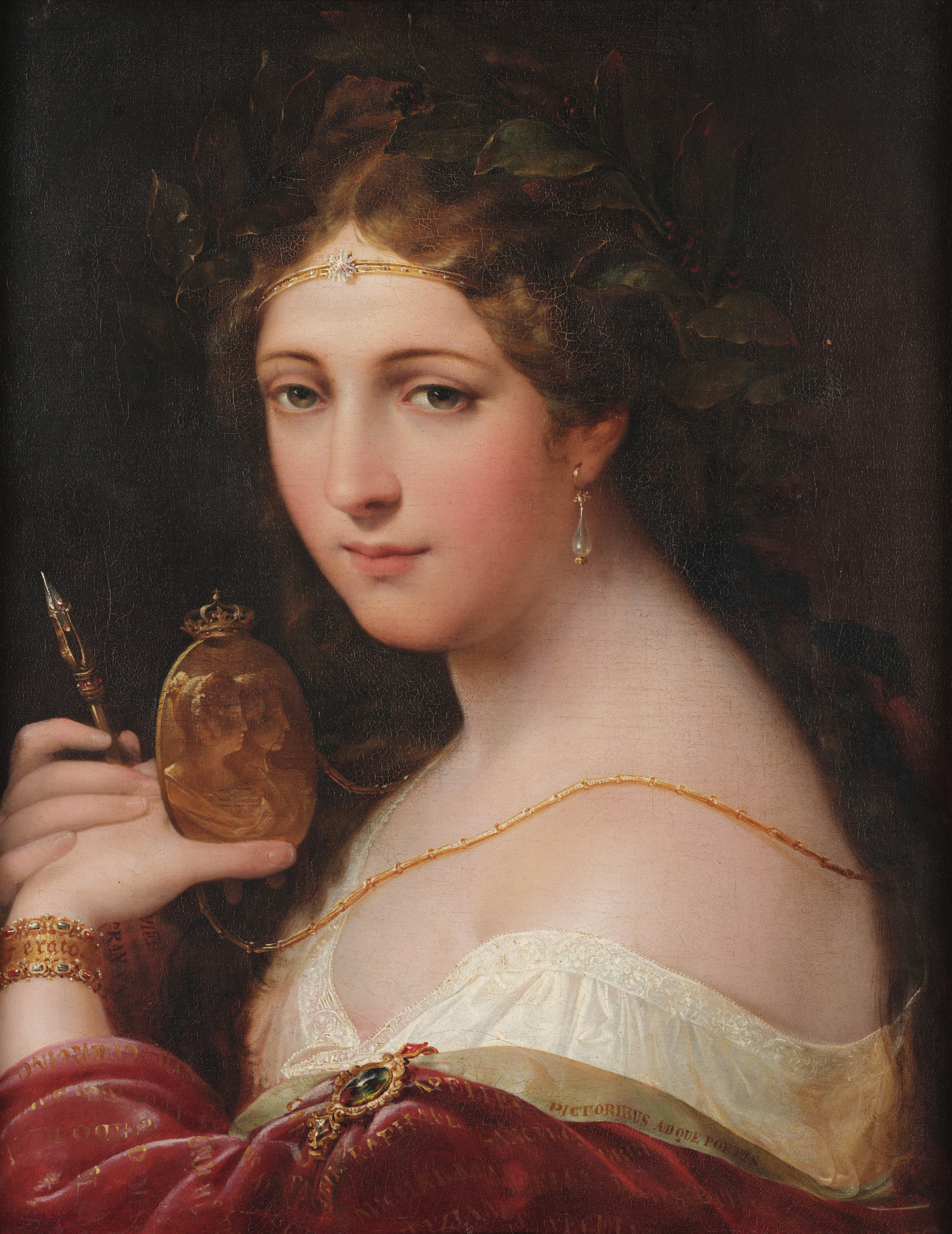 Painting of the artist's second wife, Mariana Rita Gomes, as Erato, the Muse of love poetry, sometimes called "The Genius of the Arts", by António Manuel da Fonseca. She holds a medallion with the effigies of Queen Maria II of Portugal and her husband King Ferdinand II, patrons of the arts. Аҧсшәа: Pintura da segunda mulher do artista, Mariana Rita Gomes, enquanto Erato, Musa da poesia romântica, por vezes referido como "Génio das Artes", da autoria de António Manuel da Fonseca. Segura nas suas mãos um medalhão com as efígies dos patronos das artes, D. Maria II e D. Fernando II, reis de Portugal.